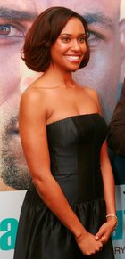 Ryan Michelle Bathe and Mo Stegall